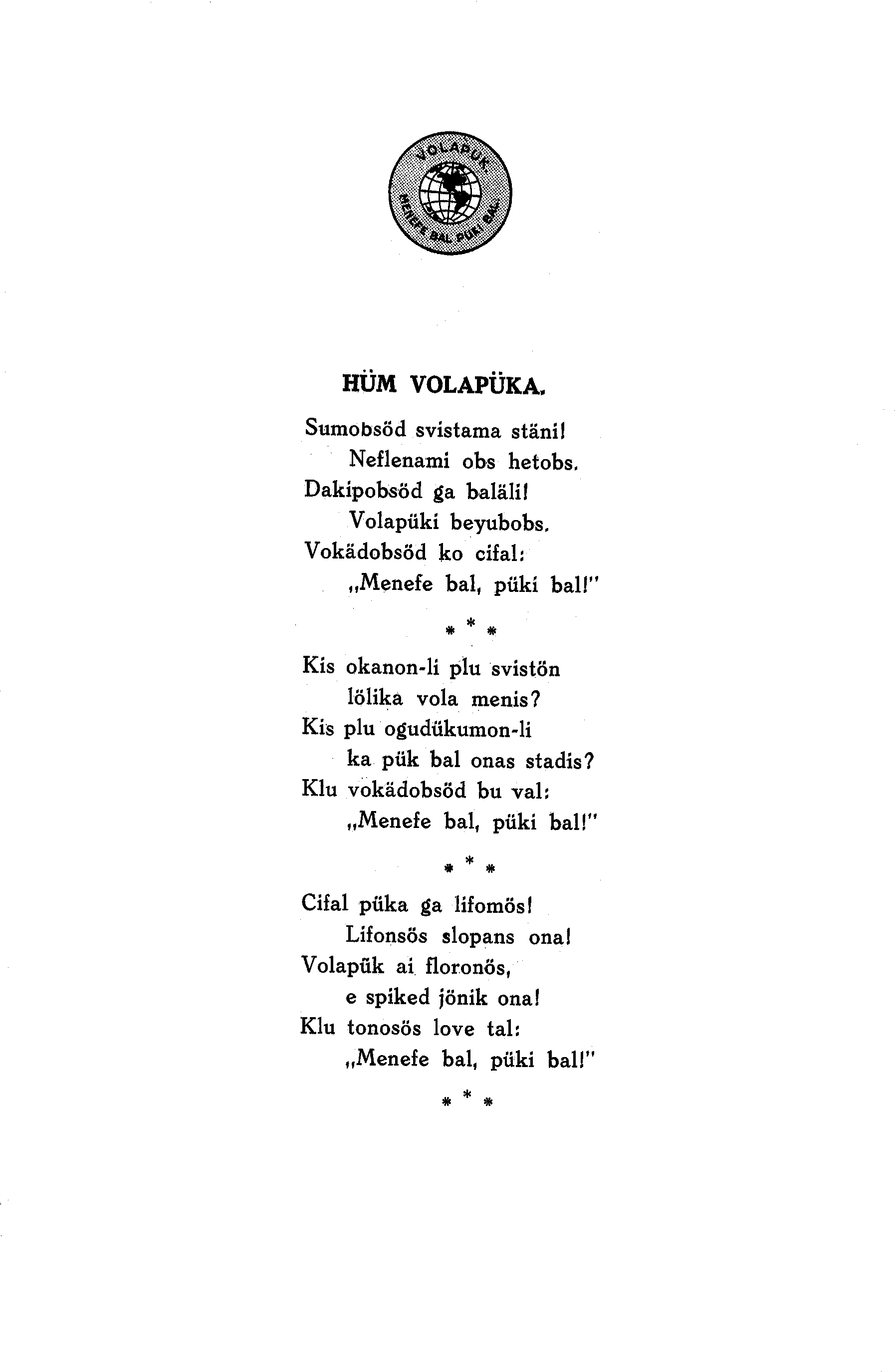 Anthem of the Volapük Language Movement (in Volapük)